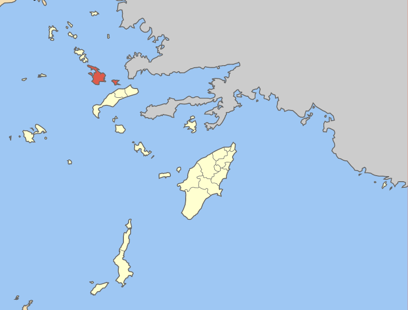 Locator map of Kalymnos municipality (Δήμος Καλυμνίων) in Dodecanese prefecture (Νομός Δωδεκανήσου) in Greece.